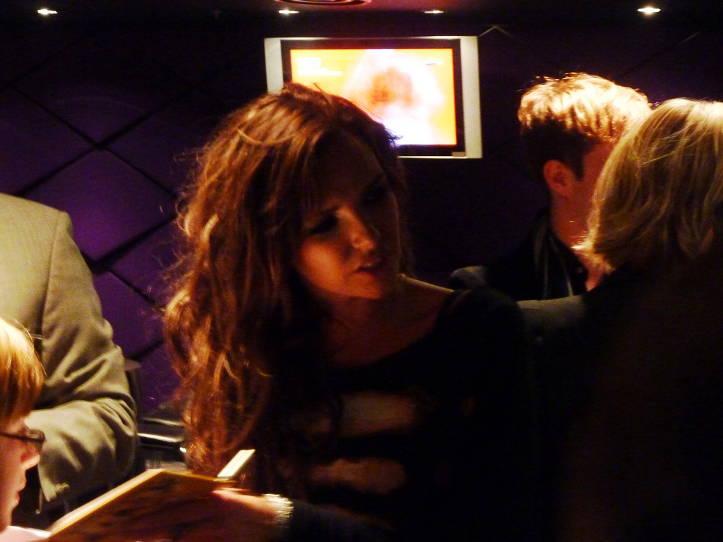 Nadine Coyle in 2009